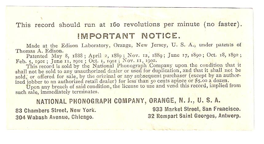 Backside from an Edison Phonograp cylinder paper slip